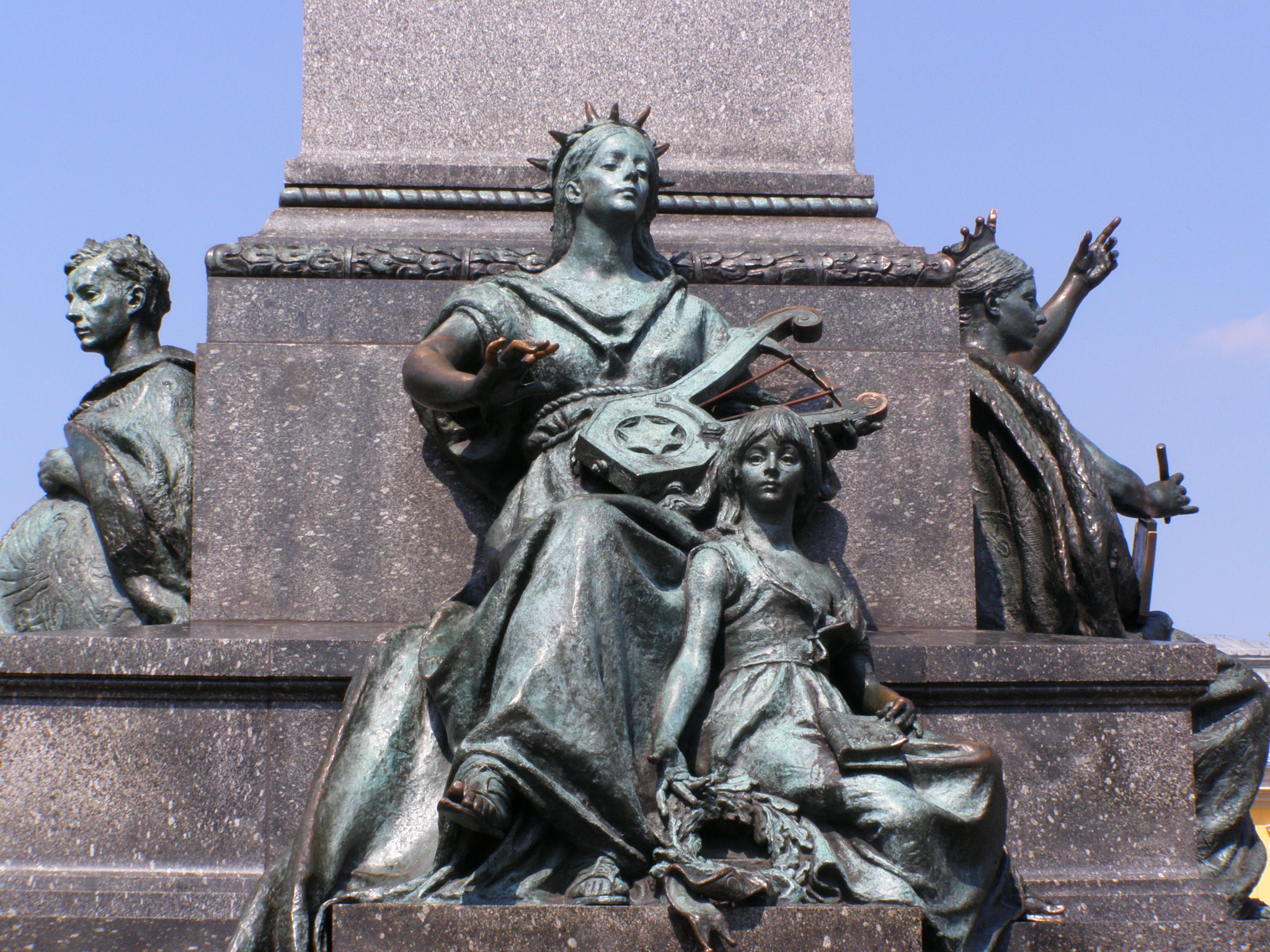 Part of Adam Mickiewicz monument (allegory of the poetry), Cracow, Poland